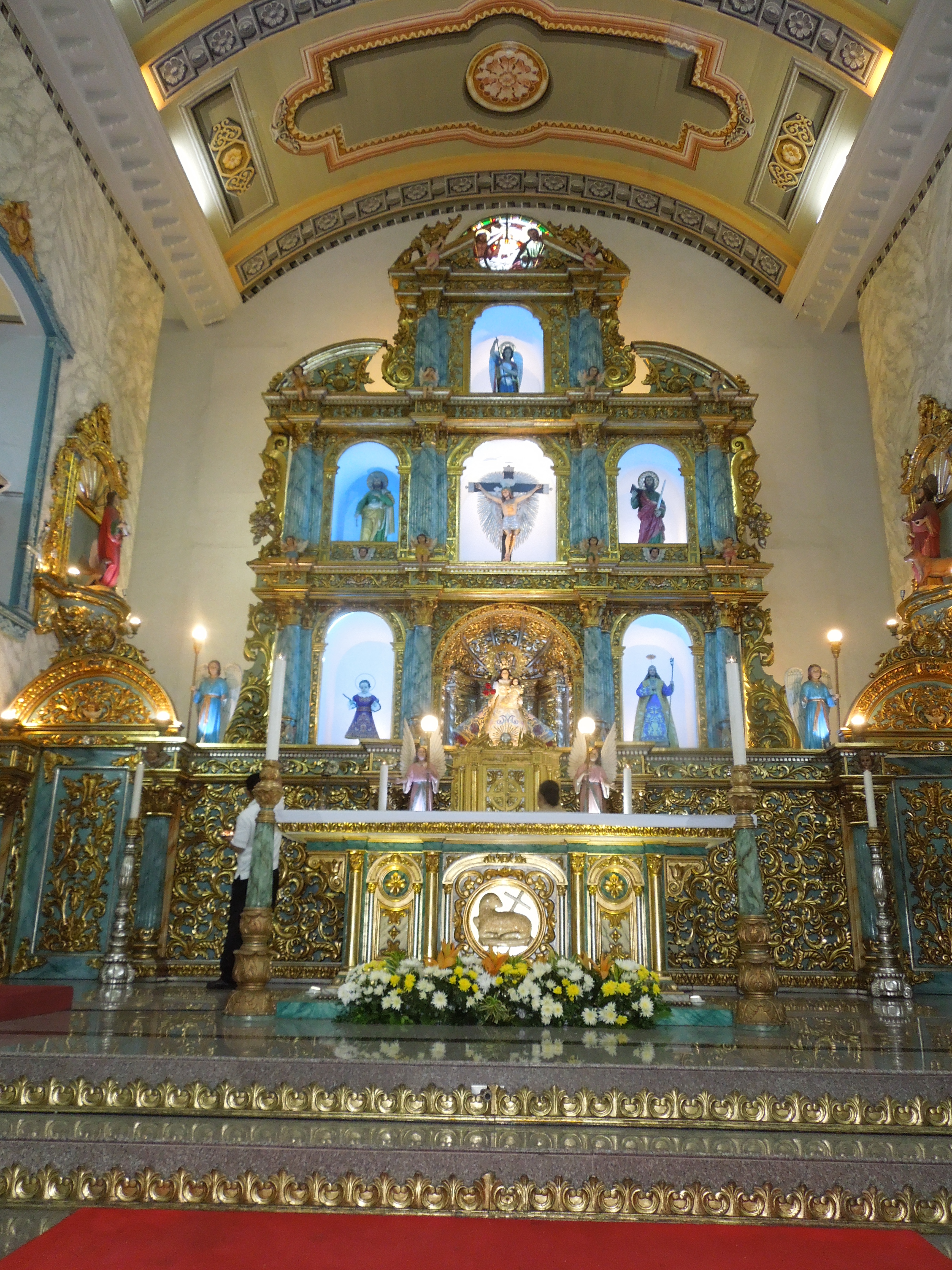 San Pedro Macati Church Saint Peter and Paul Parish Church (Makati) 14°33'57"N 121°1'52"E July 1, 1608 Founded, Completed in 1620, destroyed in 1762 and rebuilt in 1849 by adobe and woods from Guadalupe and Meycauayan City, Bulacan, Declared as Heritage of Makati City on August 14, 2009, 5519 D. M. Rivera Street corner Paraiso Street corner P. Burgos Street Solemnly Blessed Dedicated on January 30, 2015 Feast of 1718 Virgen de la Rosa from Acapulco, Mexico with a Reliquary in Her Breast which contain Her Hair is every June 30th List of barangays of Metro Manila, Legislative districts of Makati, Barangay Poblacion 14°34'3"N 121°1'52"E Poblacion, Makati, Makati City (Note: Judge Florentino Floro, the owner, to repeat, Donor Florentino Floro of all these photos hereby donate gratuitously, freely and unconditionally all these photos to and for Wikimedia Commons, exclusively, for public use of the public domain, and again without any condition whatsoever).